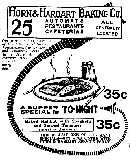 Horn & Hardart newspaper ad from 1922 in Philadelphia. Halibut, spaghetti and stewed tomatoes.